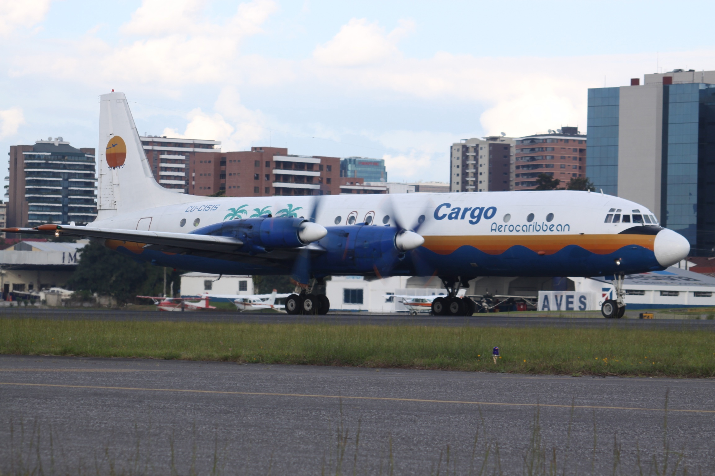 At Guatemala La Aurora International